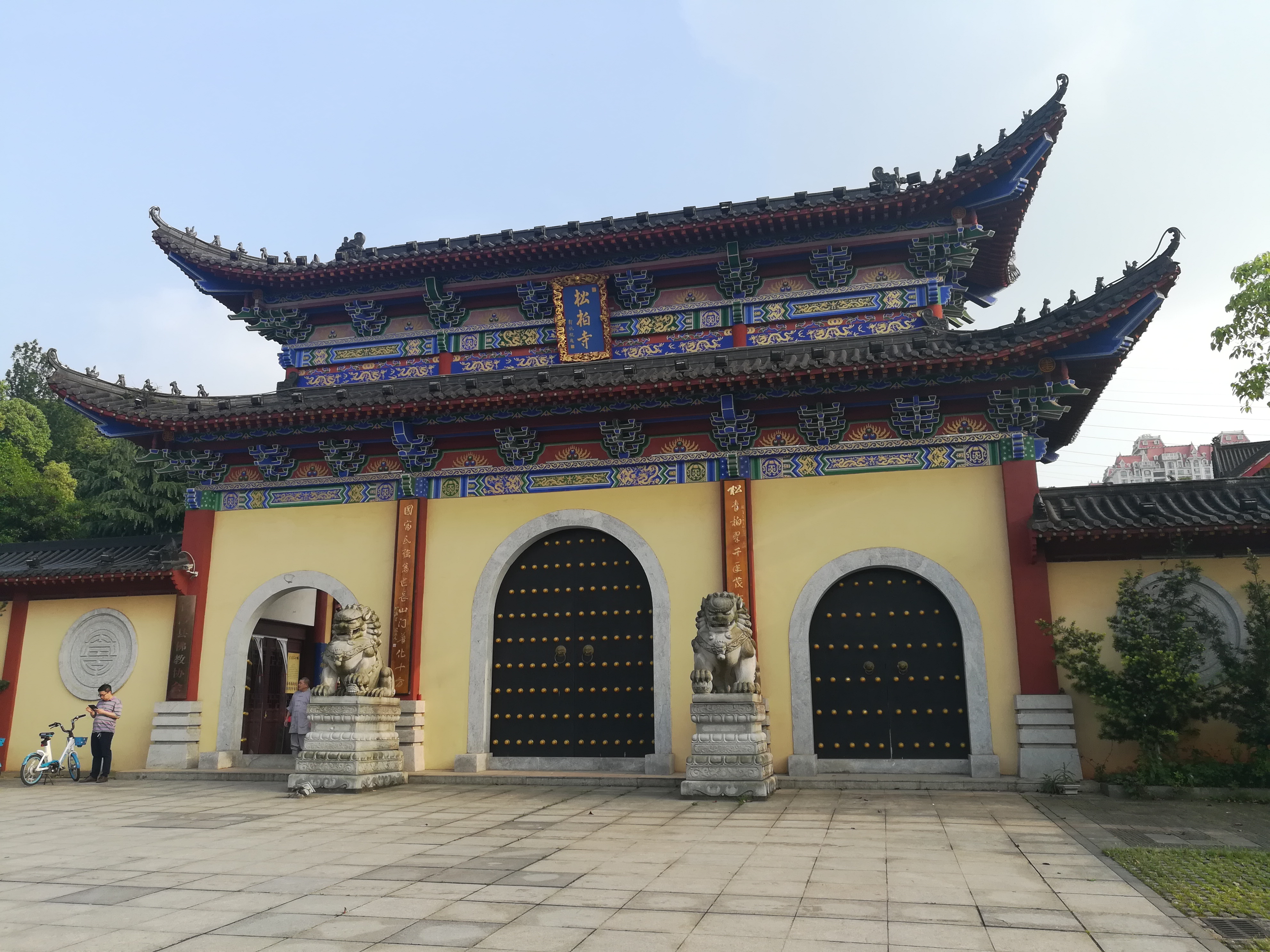 The Shanmen at Songbai Temple. Songbai Temple is a Buddhist temple in Xingsha Subdistrict of Changsha County, Hunan, China.